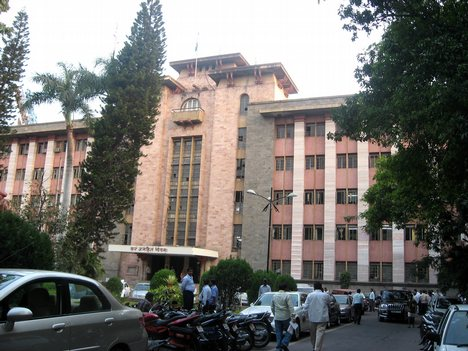 Pune Municipal Corporation Building